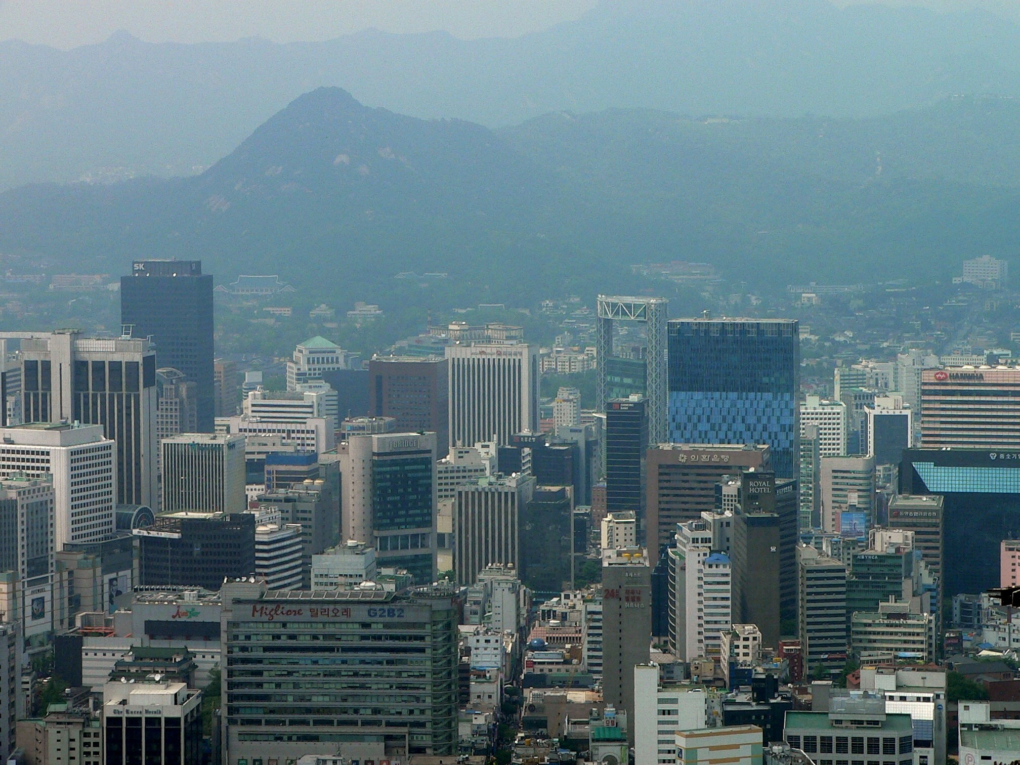 Photo of Downtown Seoul.